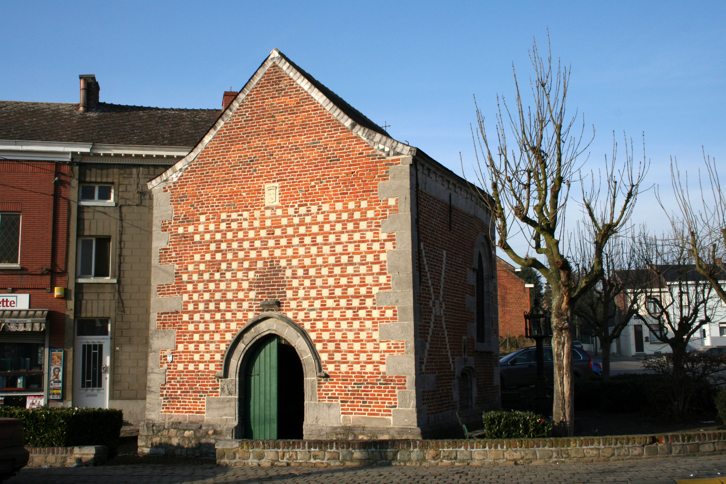 Trivières (Belgium), the chapel called « Notre-Dame du Puits » (1664}.